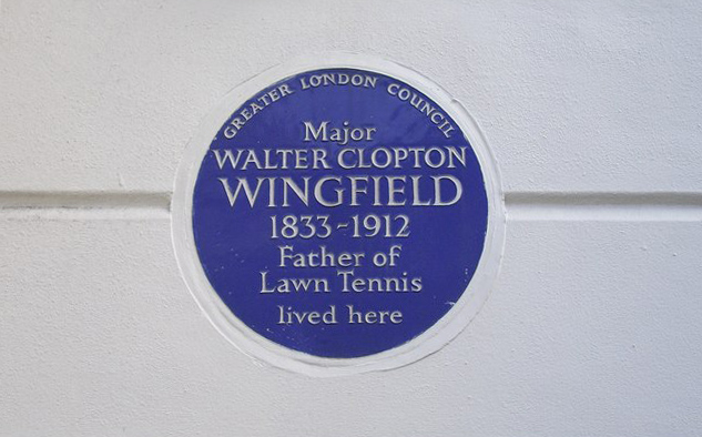 Blue Plaque 'Major Walton Clopton Wingfield' Father of lawn tennis, lived here at 33 St George's Square, Pimlico.